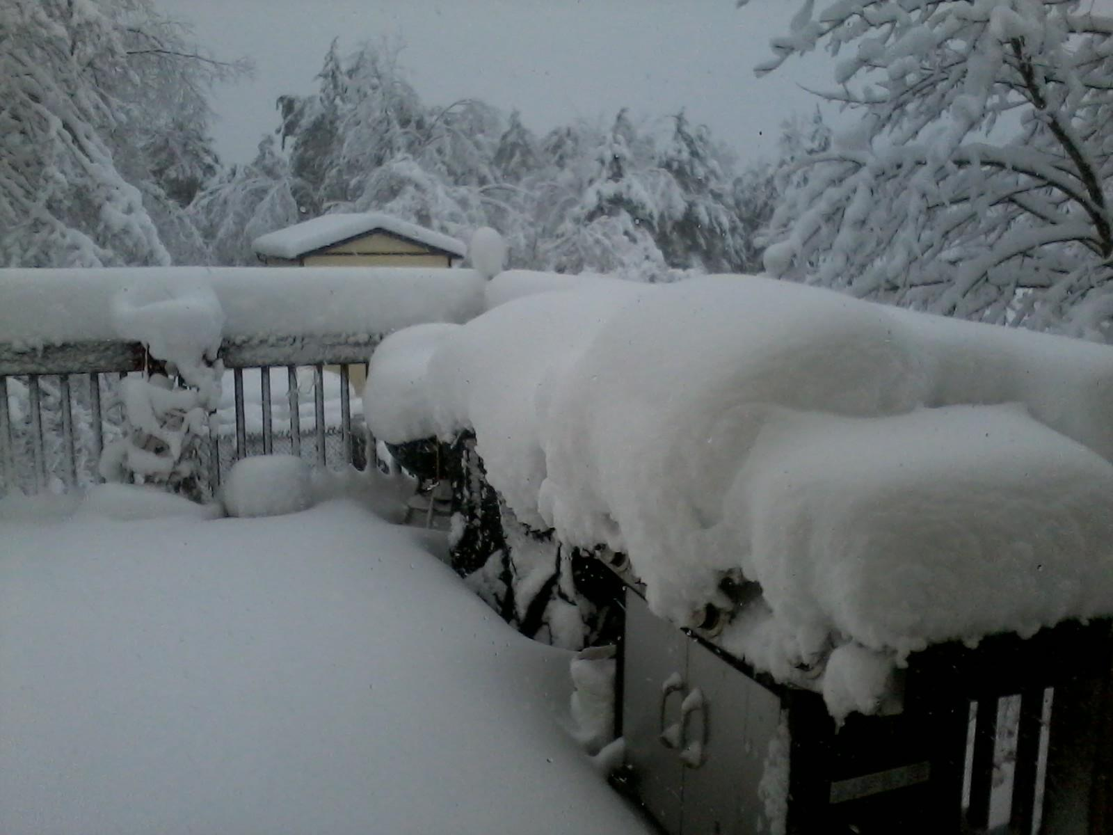 John Schmidt, of the West Virginia Field Office, photographed his backyard during Hurricane Sandy. Credit: USFWS Stay informed